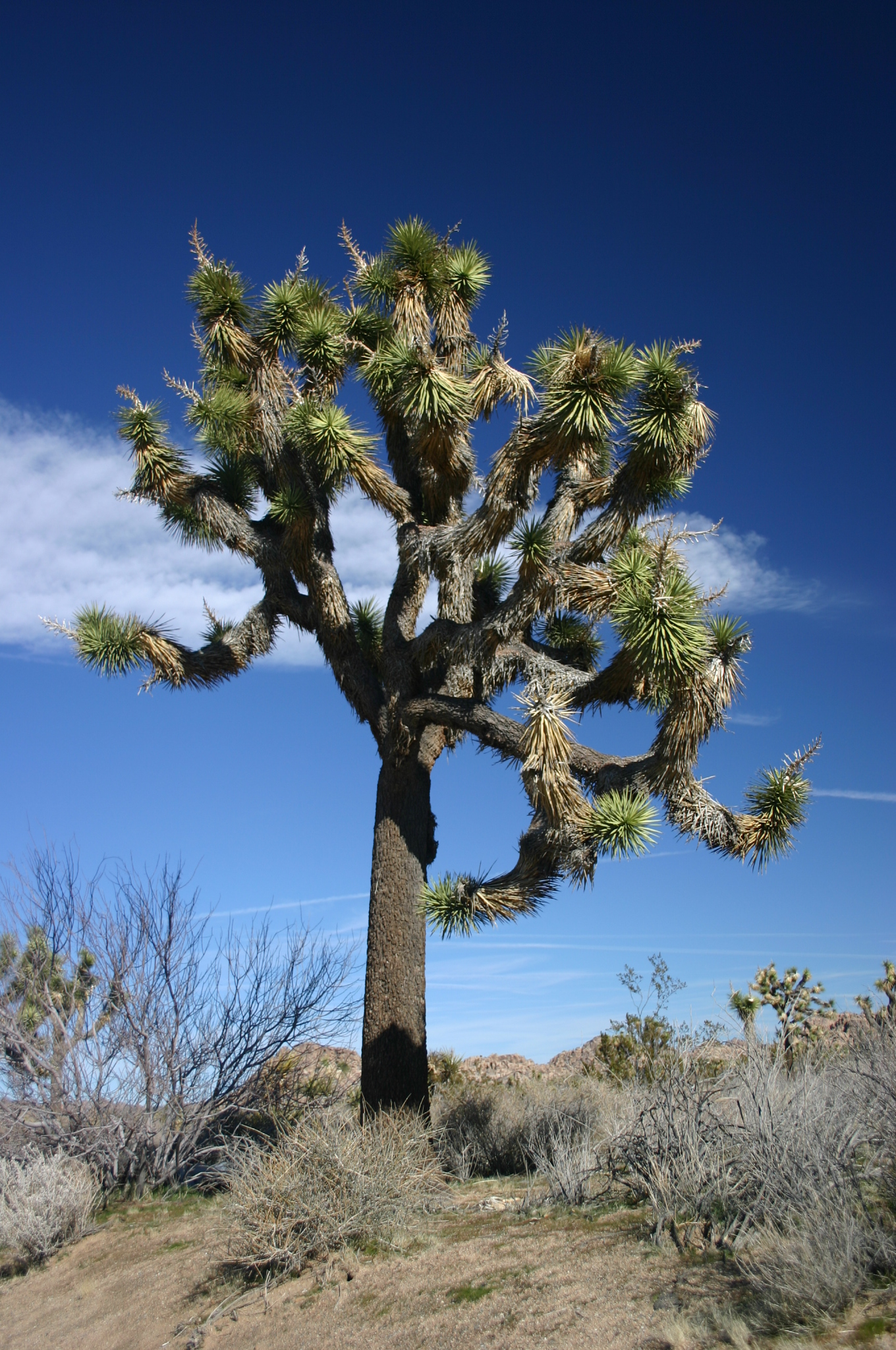 Joshua Tree (Yucca brevifolia) taken at a Picnic Area in Joshua Tree National Park, California, USA.